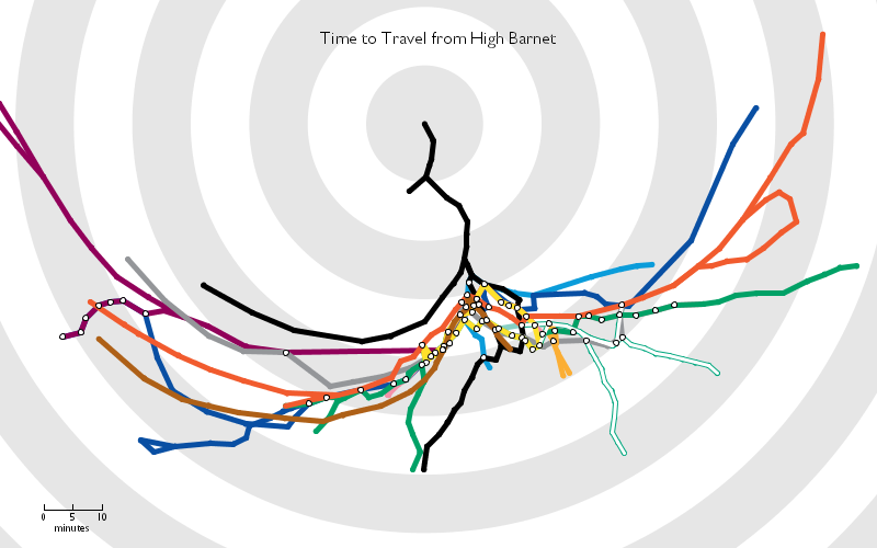 Travel time on London Underground starting at High Barnet. Based on 2005 timetables.